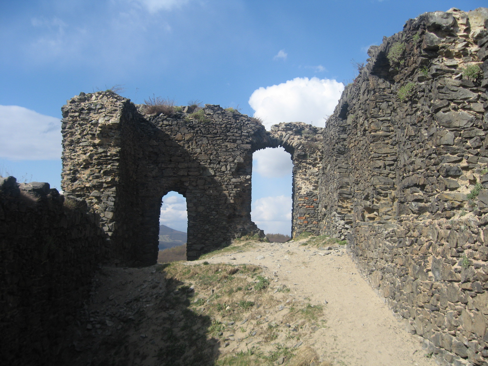 Košťálov Castle in Czech Republic - Wiew to the Entrance into the Palace from inside